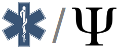 Image for mental health stubs, uses two psych images - psychiatry (medicine) and psychology